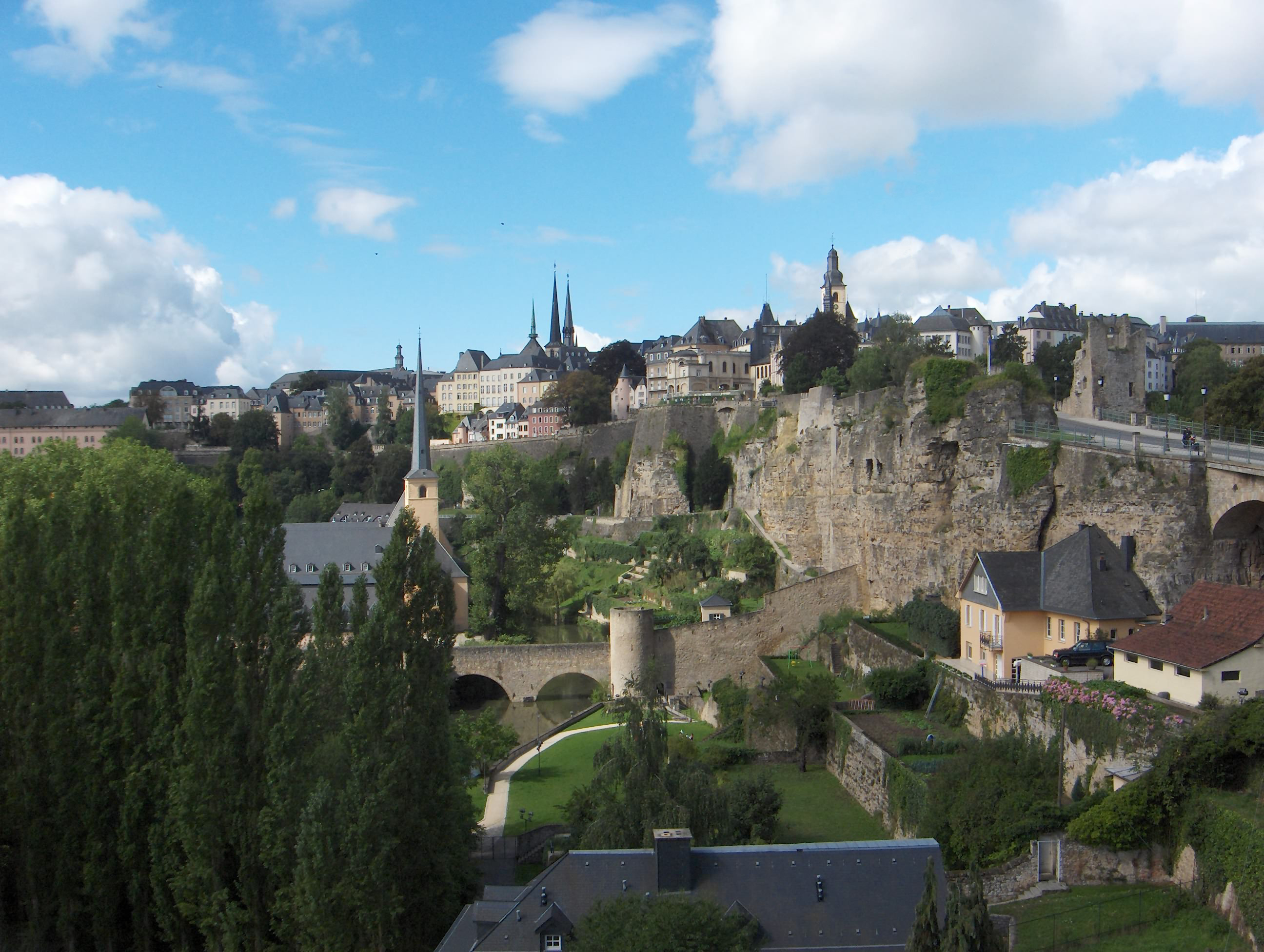 Luxembourg City straddles several valleys and outcrops, making the city's layout more complicated.